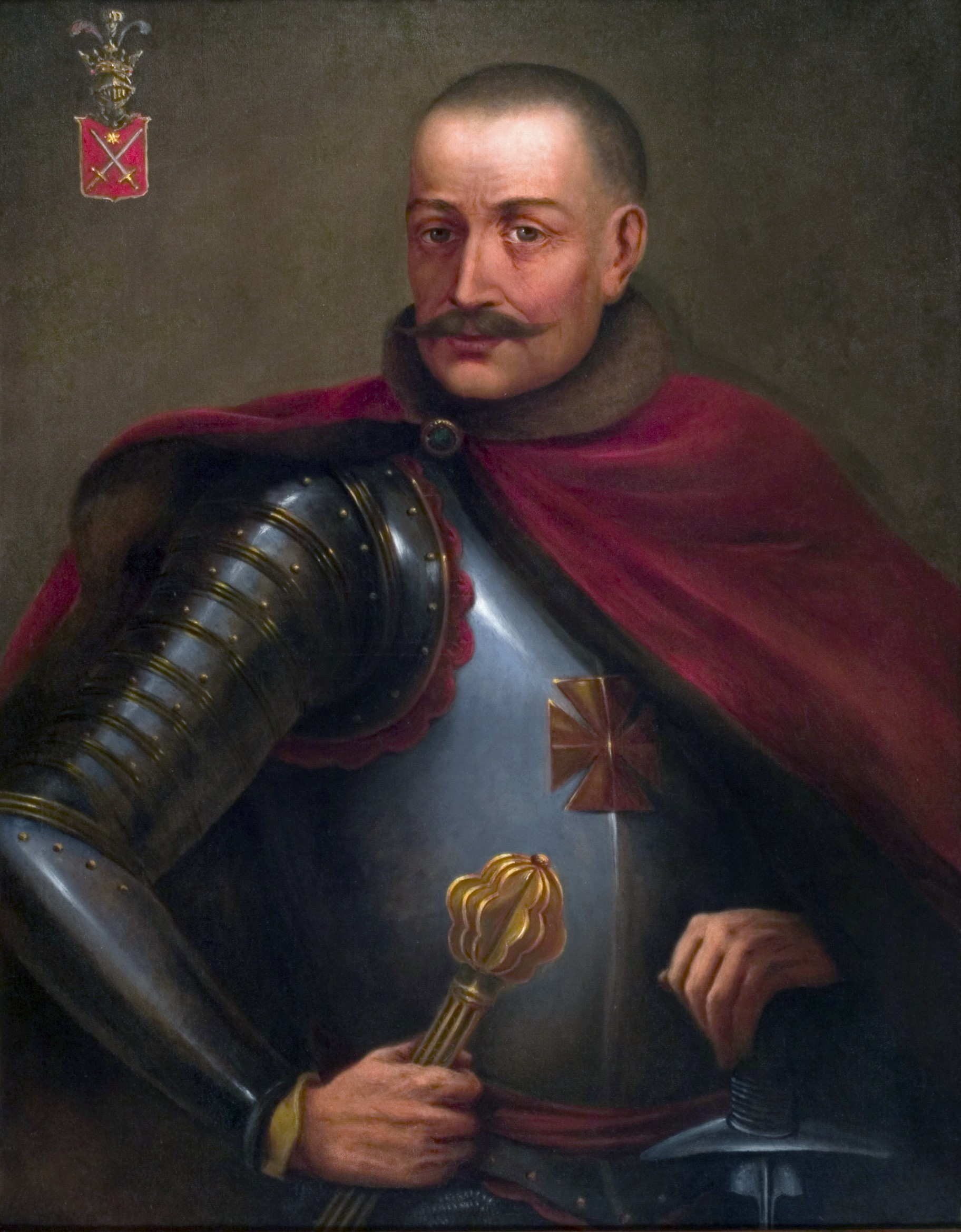 Władysław Wojciech Jelski - starost of Pińsk